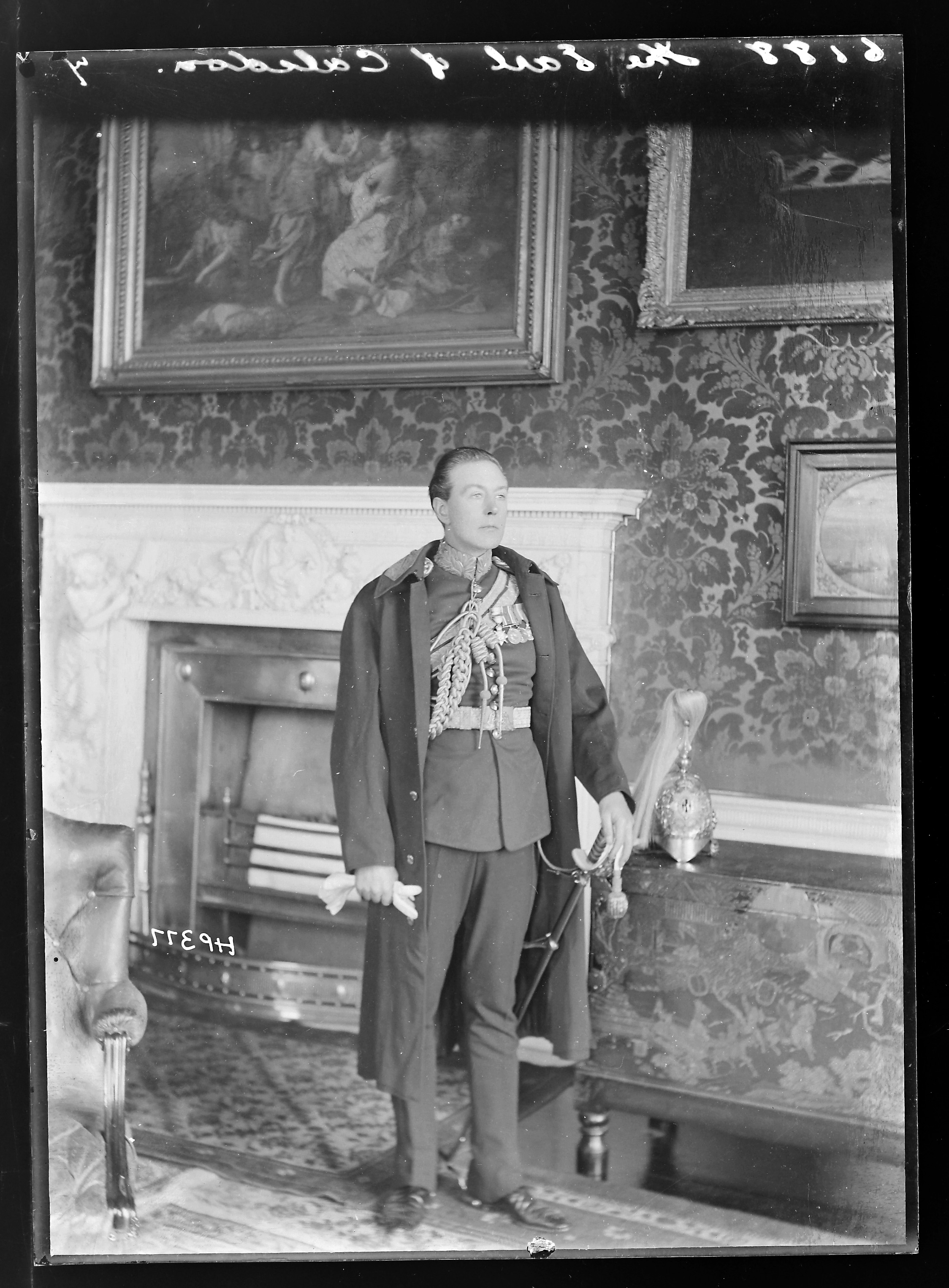 Creator: H. Allison & Co. Photographers Date: 5th December 1932 Original Format: Glass Plate Negative Description: Portrait of the Earl of Caledon. PRONI Ref: D2886/W/Portrait/163 Copying and copyright: Please For Copy Orders, contact: For fees and charges